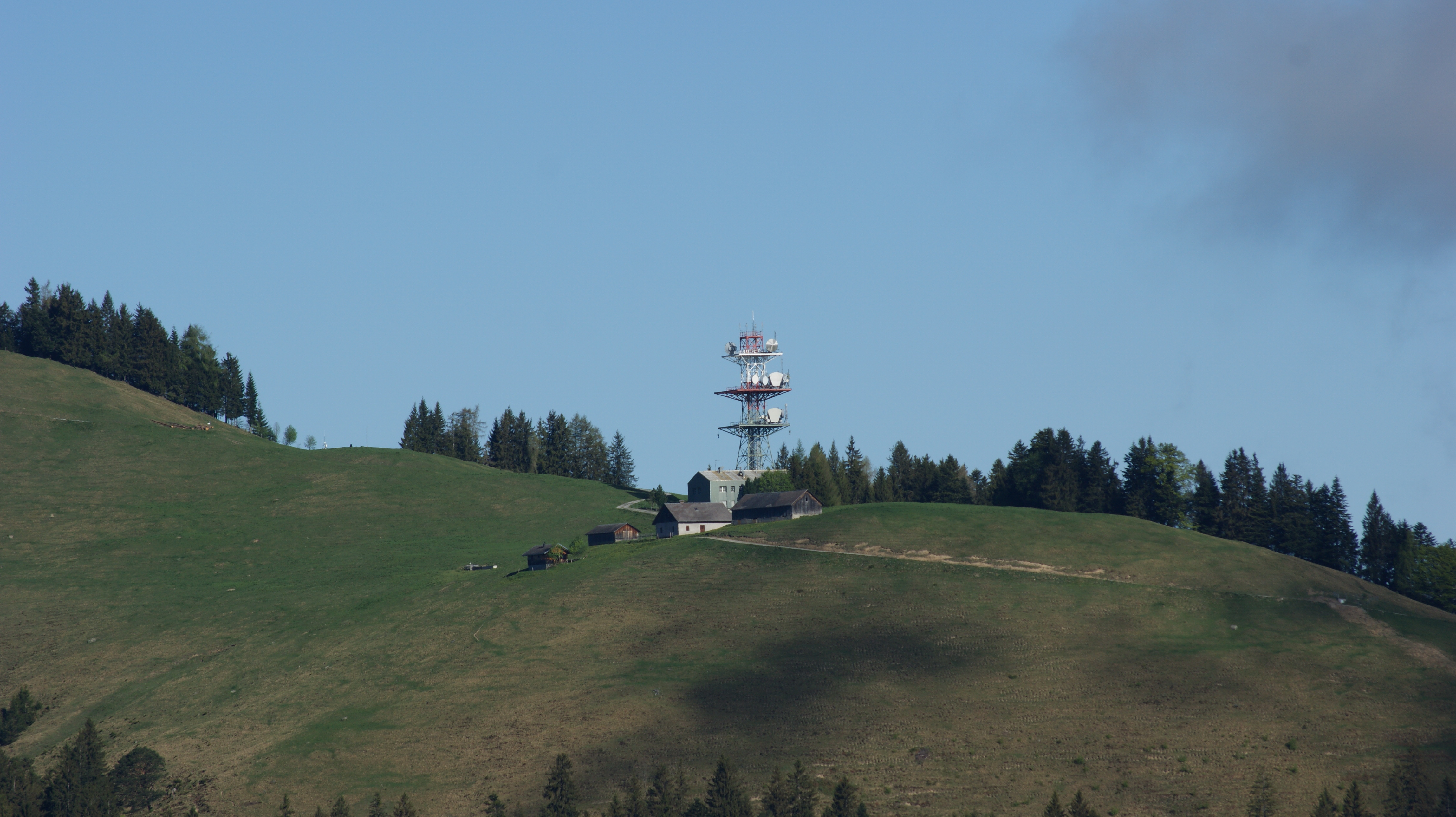 Älpele in Frastanz, Vorarlberg, Austria with ORF / ORS station, cable car to Feldkircher hut.